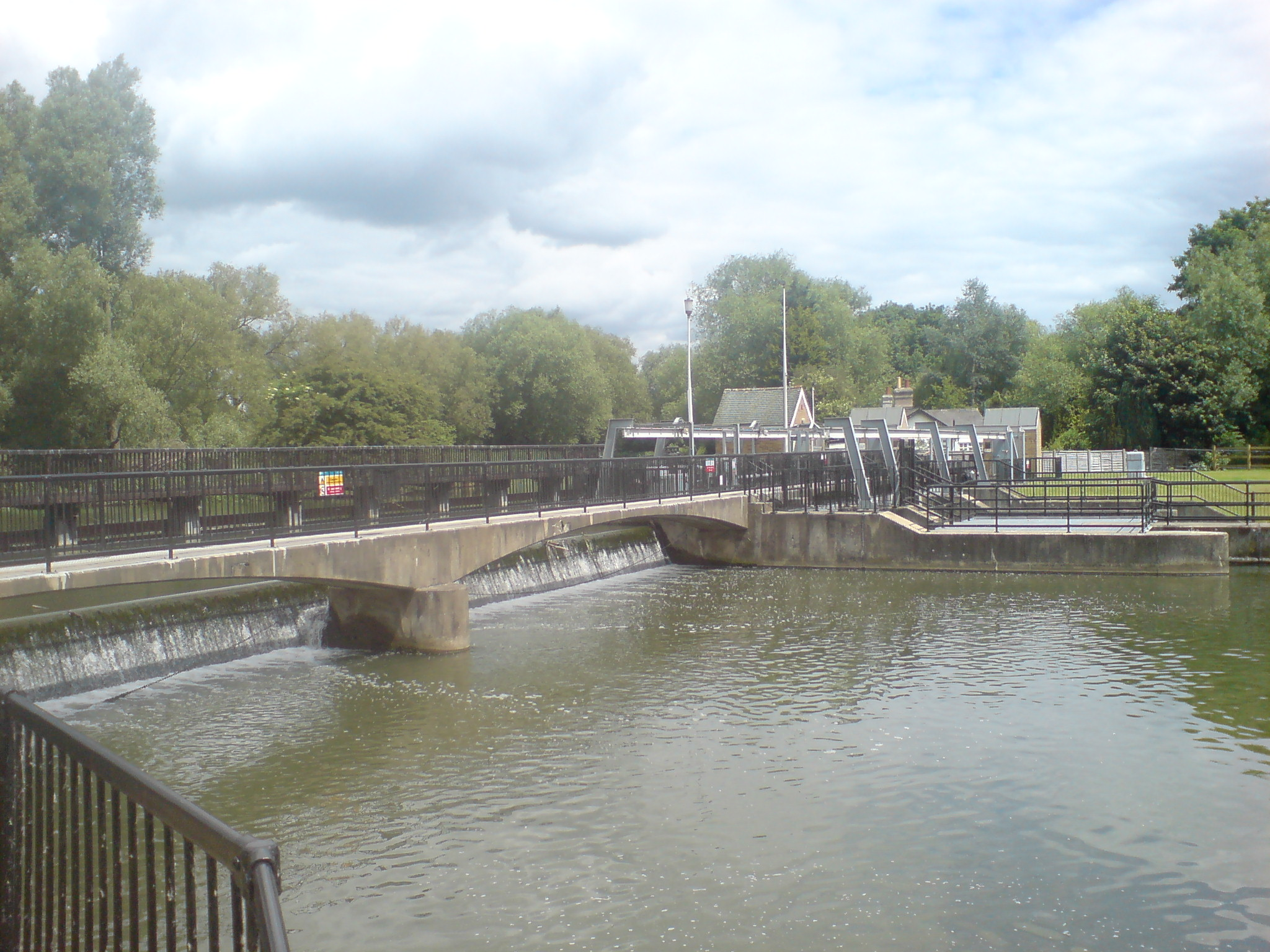 Author: Jamsta (talk) 16:04, 17 June 2008 (UTC)